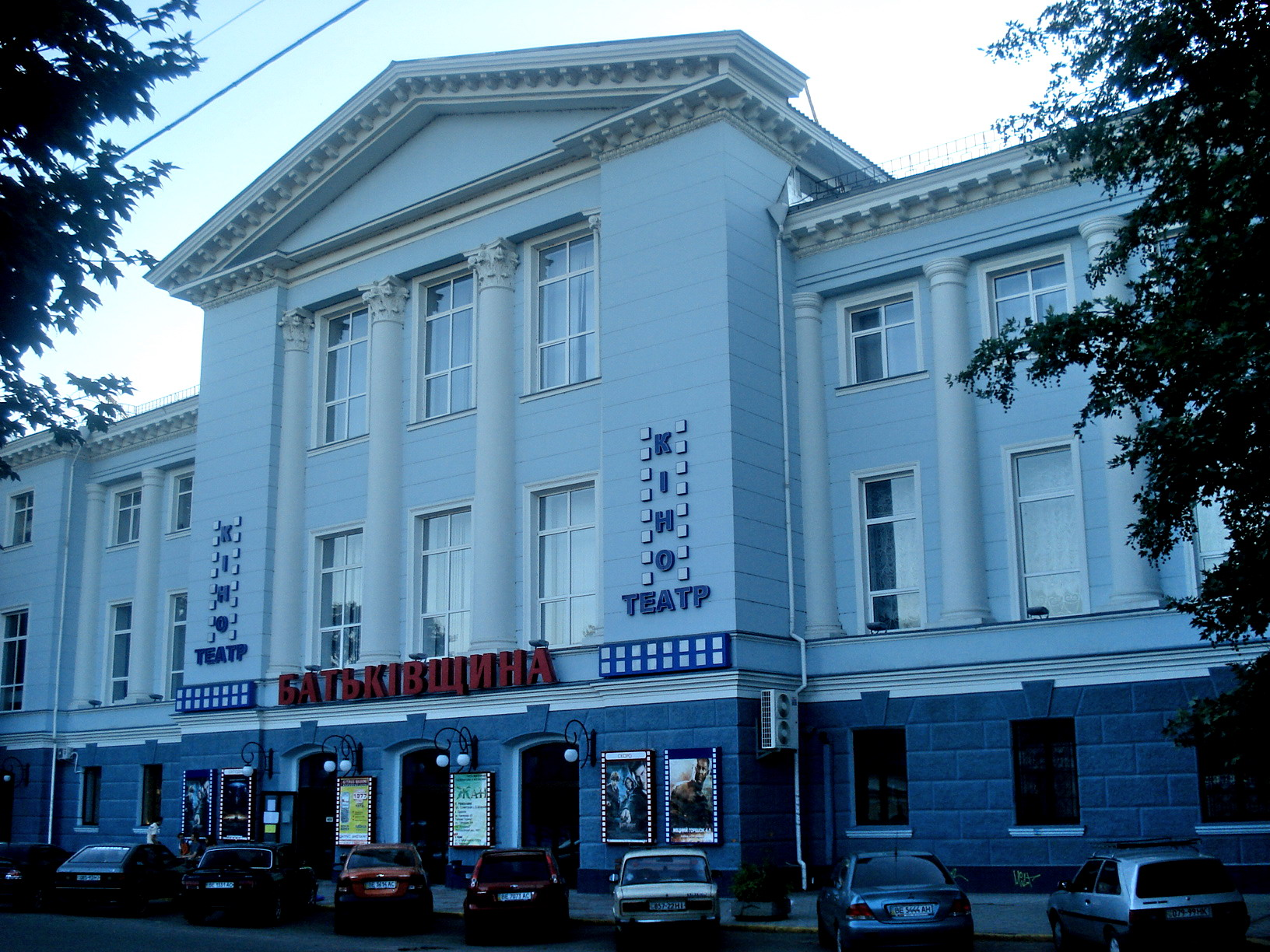 Bat'kivshchina Cinema, Mykolaiv